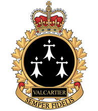 CFB Valcartier Logo